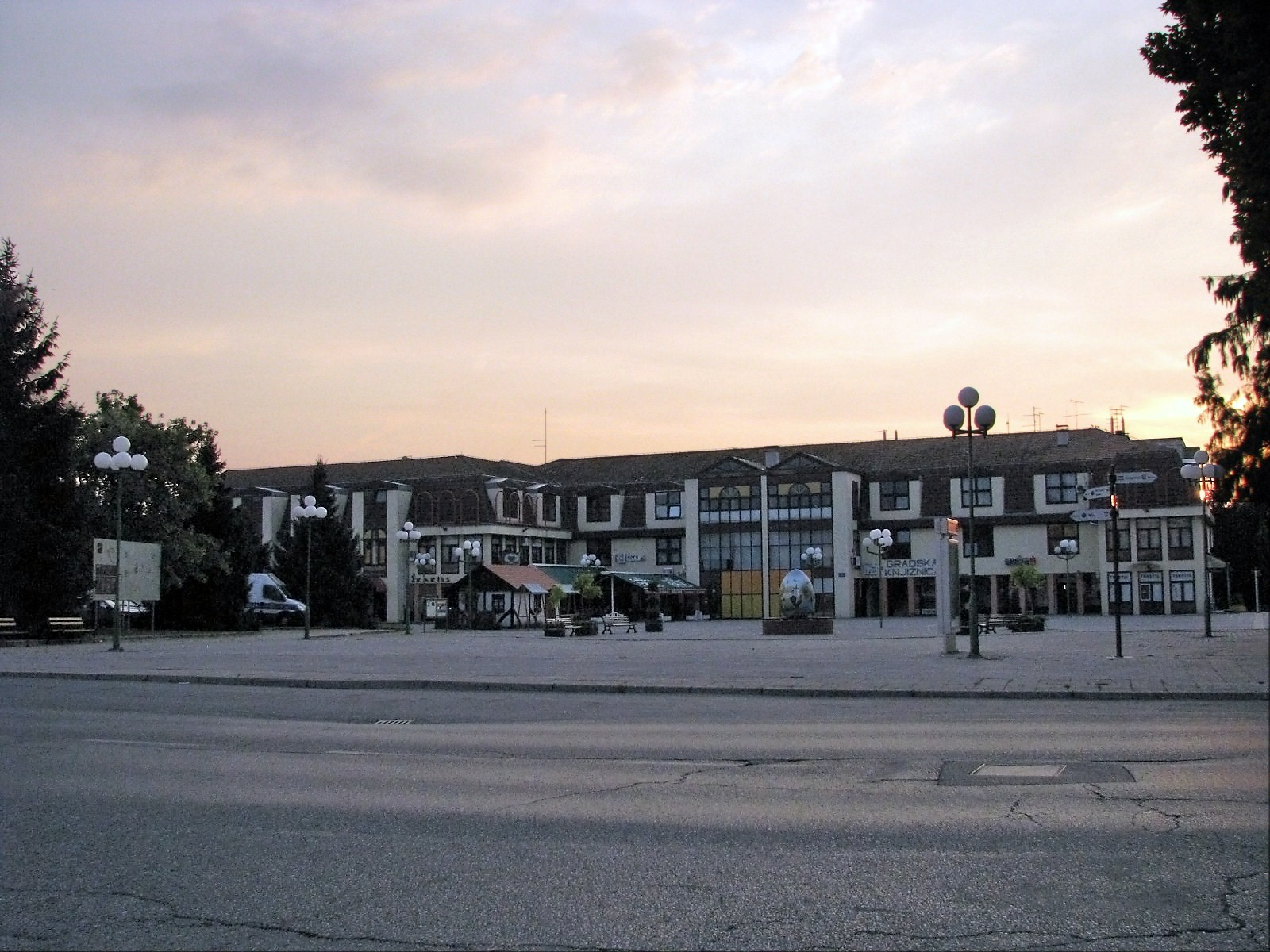 Center of Đurđevac, Croatia